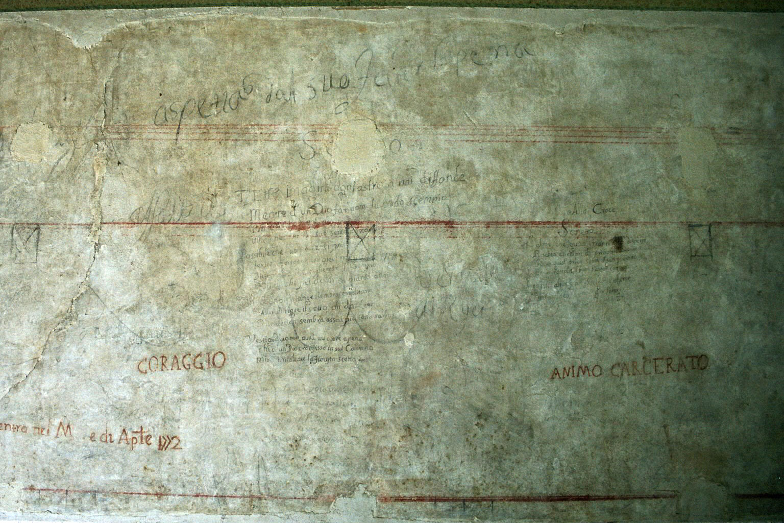 Palazzo Chiaramonte, Palermo Graffiti on the wall of the audience hall